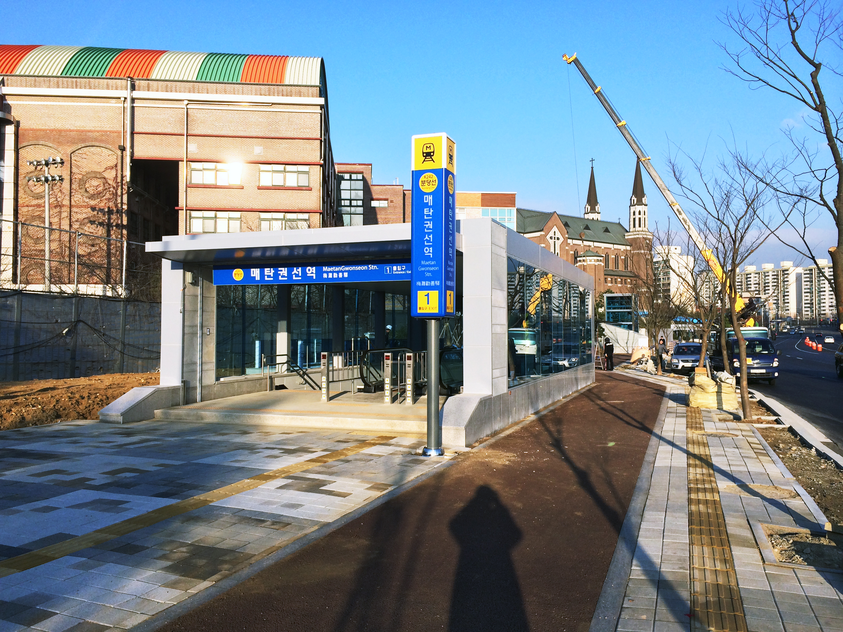 1st exit of MaetanGwonseon Station